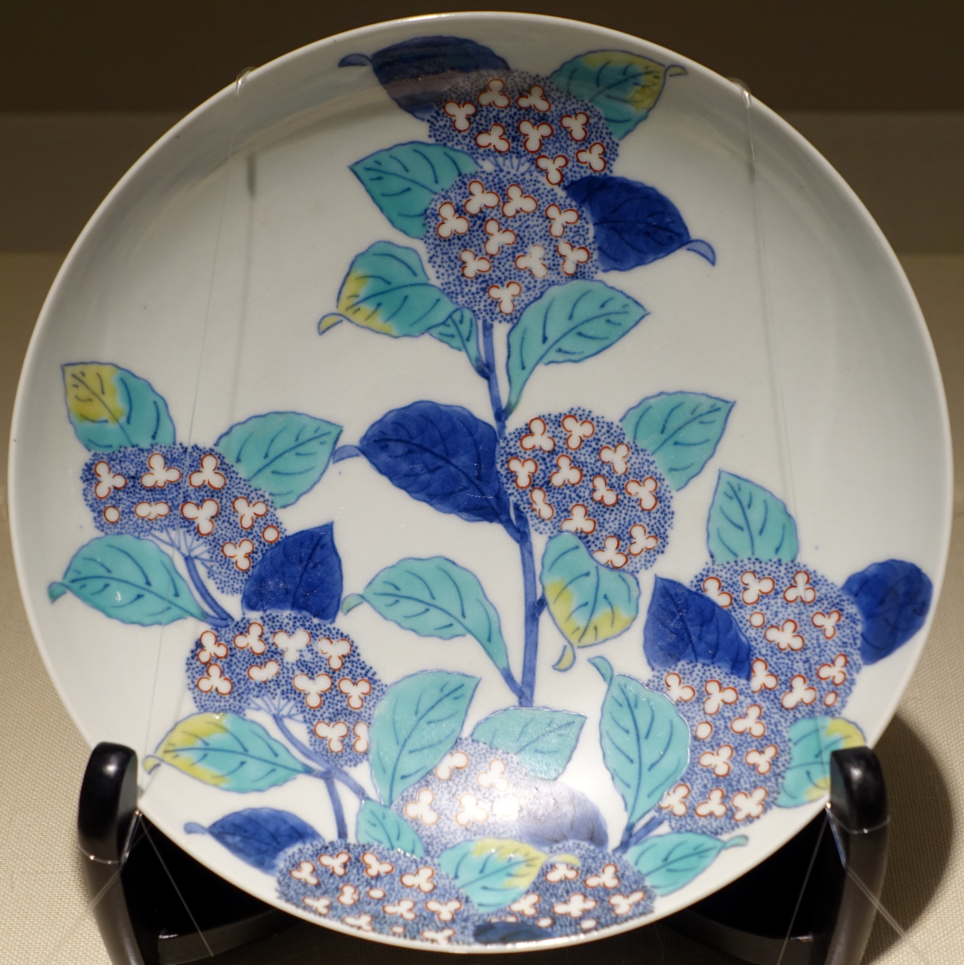 Exhibit in the Matsuoka Museum of Art - 5 Chome-12-6 Shirokanedai, Minato, Tokyo 108-0071, Japan.